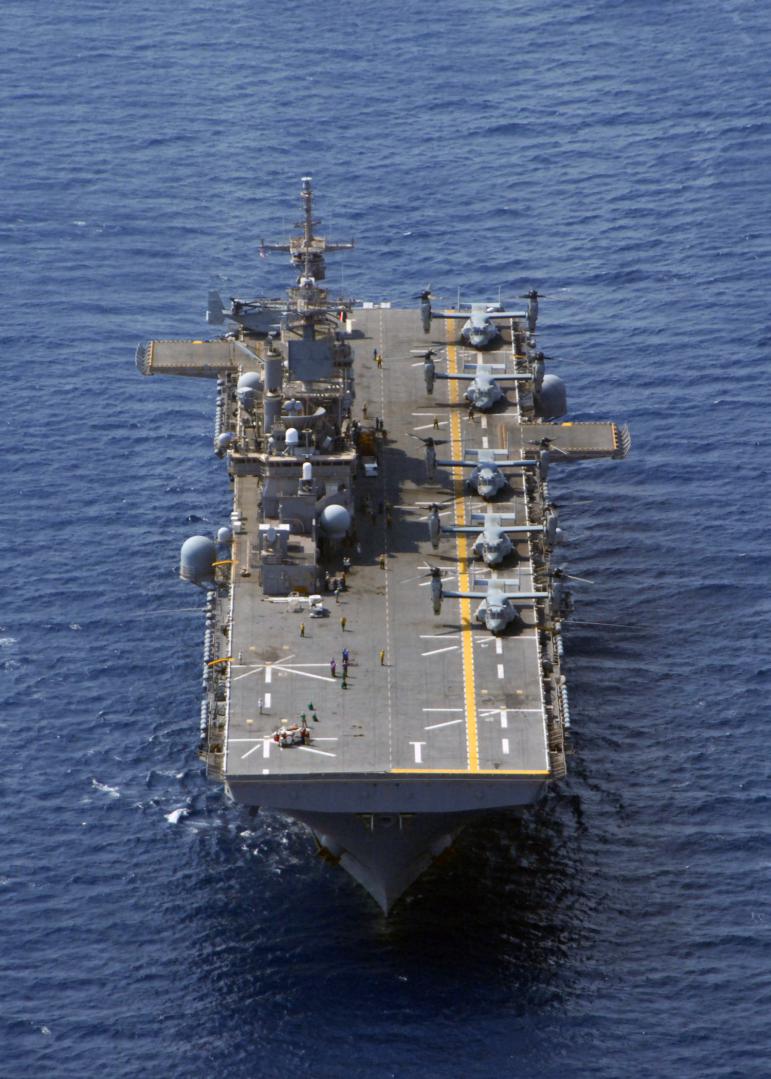 071004-N-1189B-190 GULF OF AQABA - U.S. Marine Corps MV-22 Ospreys, assigned to Marine Medium Tiltrotor Squadron (VMM) 263, Marine Aircraft Group 29, prepare for flight on the deck of the multipurpose amphibious assault ship USS Wasp (LHD 1). Wasp is on surge deployment to the Middle East carrying the Osprey to its first combat deployment.